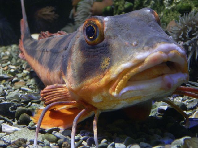 Chelidonichthys lucernus